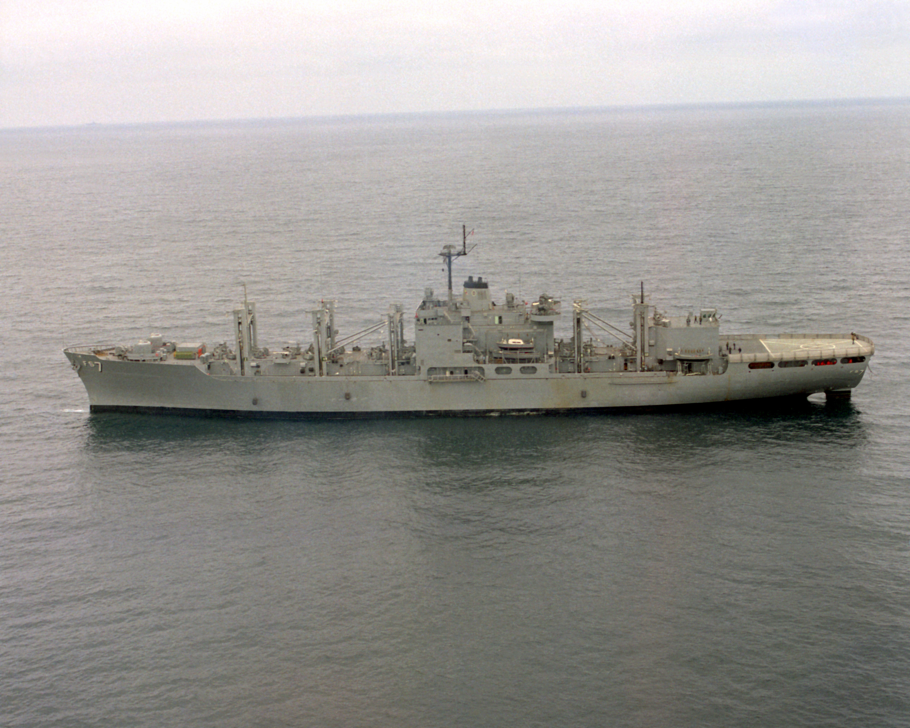 An aerial port beam view of the combat stores ship USS SAN JOSE (AFS-7) off the coast of San Diego.